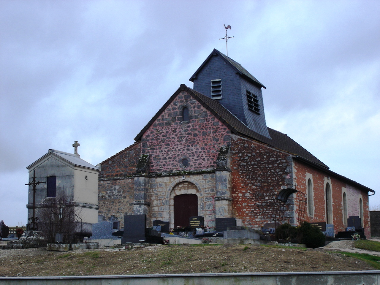 Saint Jean Baptiste church of Vélye, Marne, France